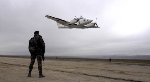 Mazar-i-Sharif International Airport in Mazar-i-Sharif, Afghanistan.